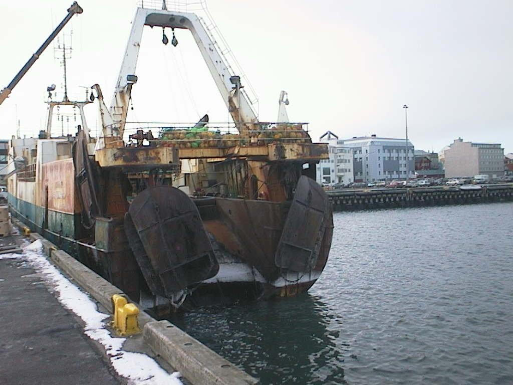 Taken by me around the year 2000 in Reykjavík harbour. Hereby released by me to Wikipedia under the GNU Free Documentation License.